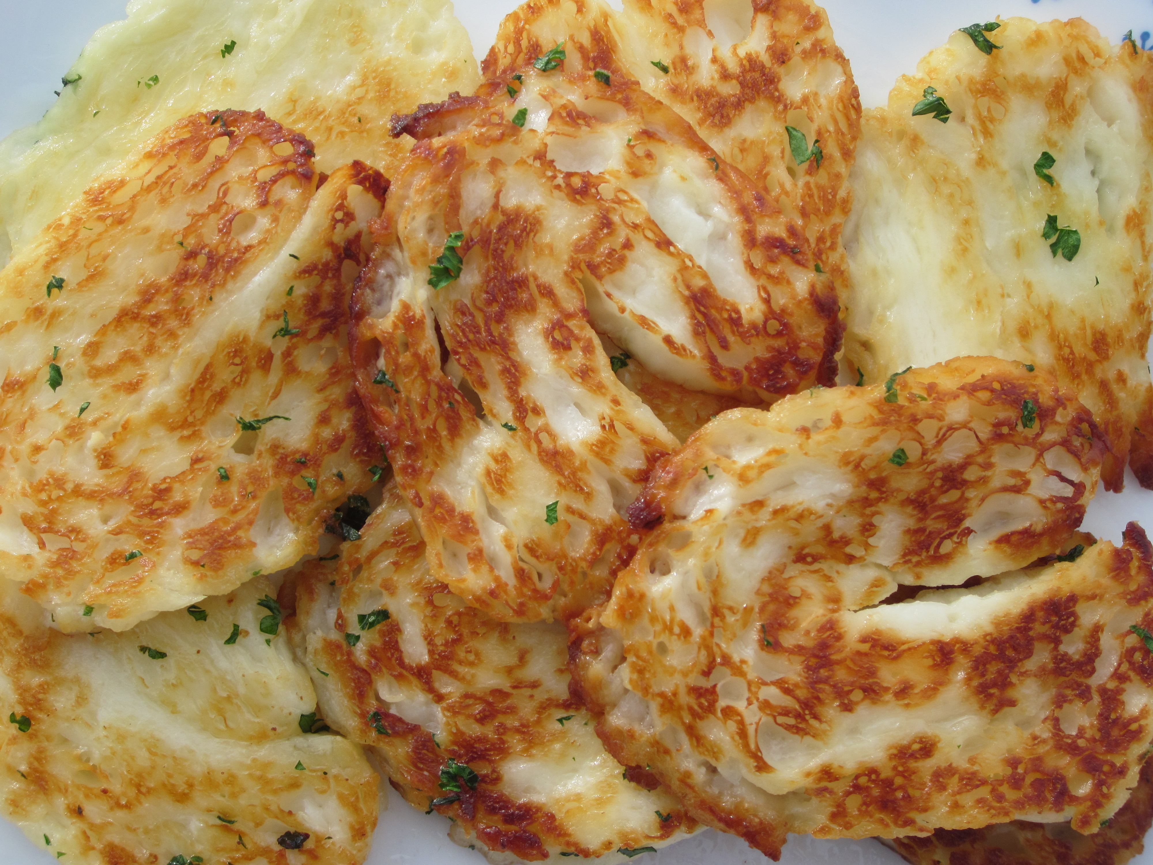 Grilled Halloumi Cheese